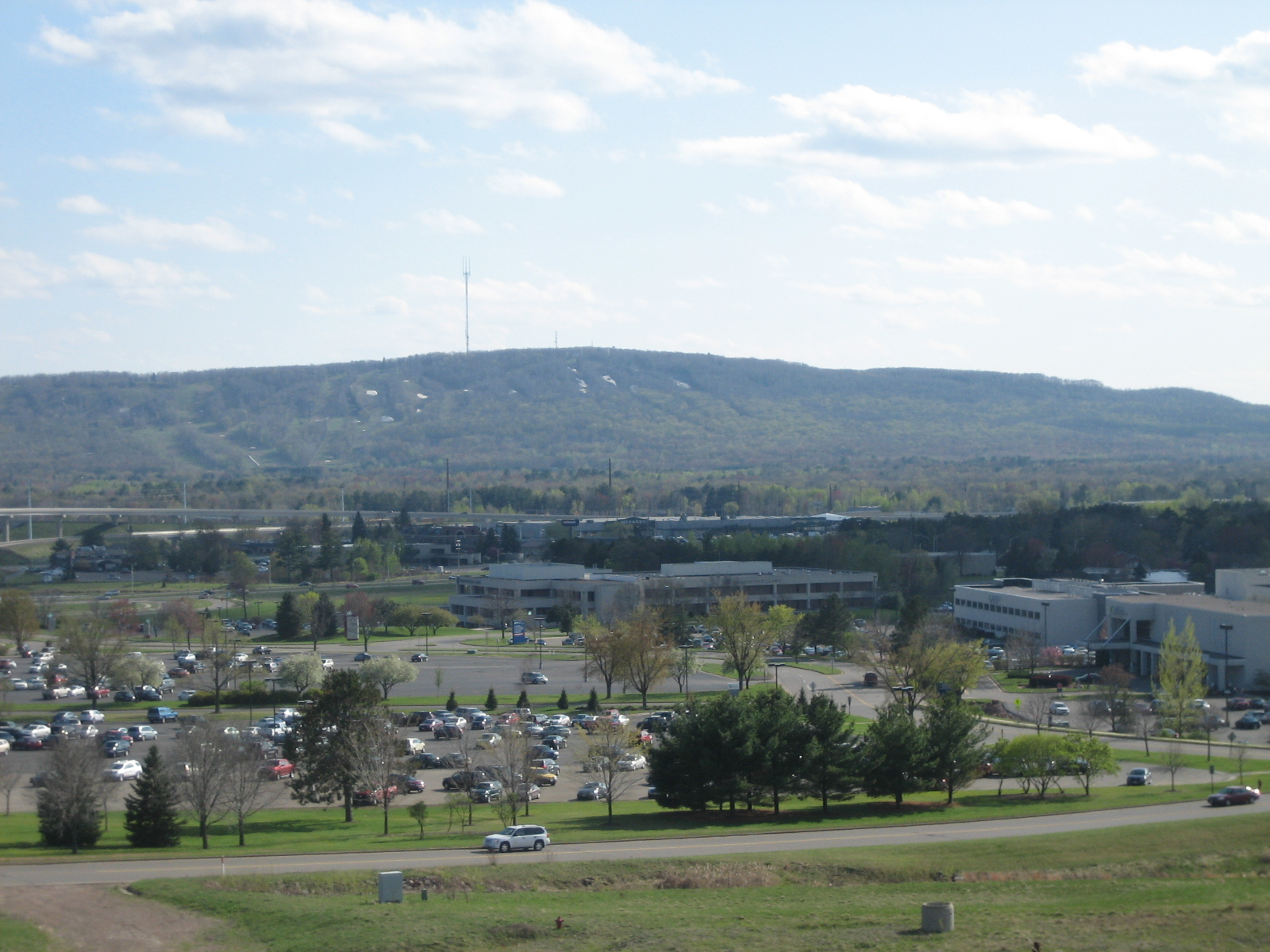 Rib Mountain